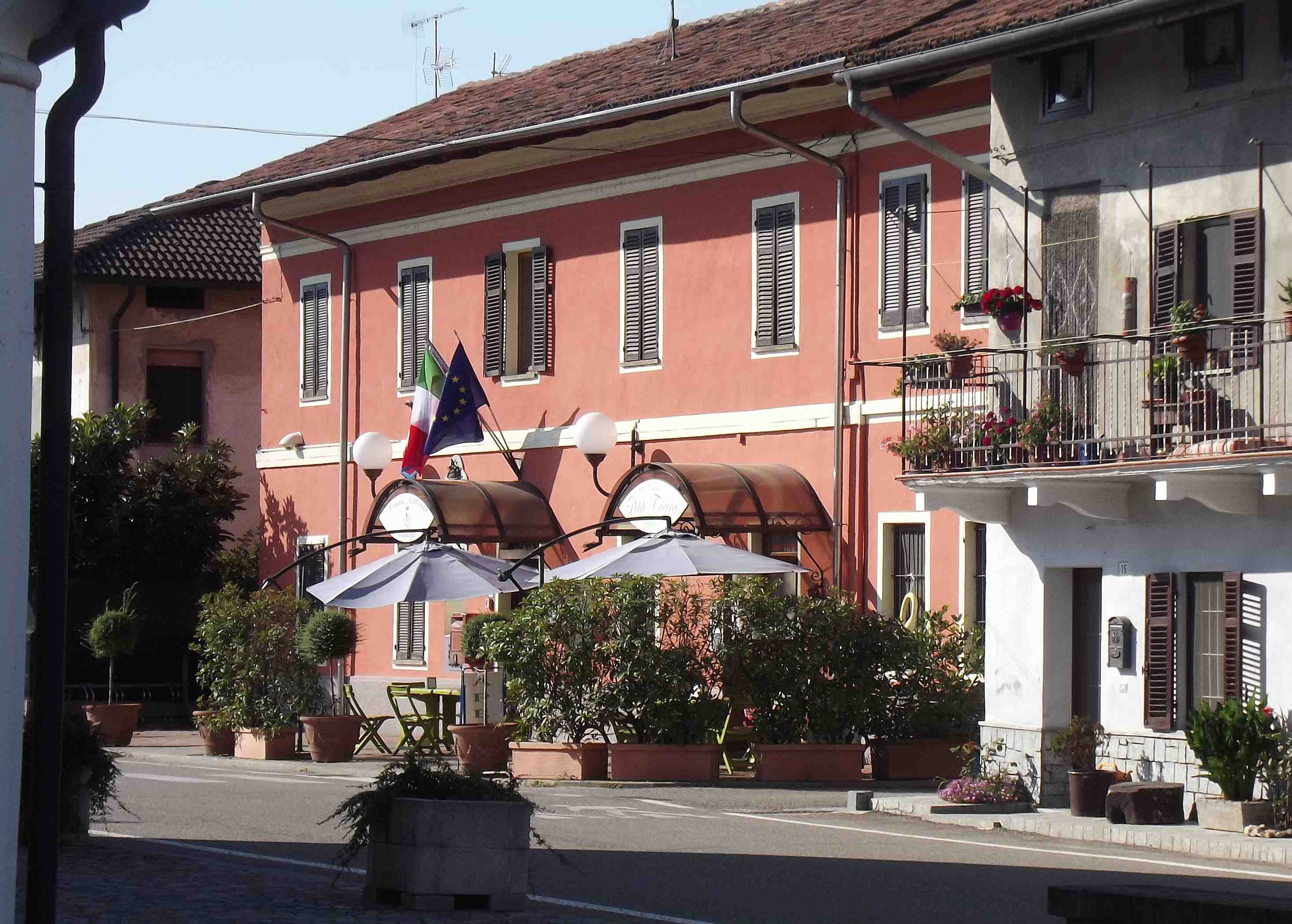 Gifflenga (BI, Italy): town hall